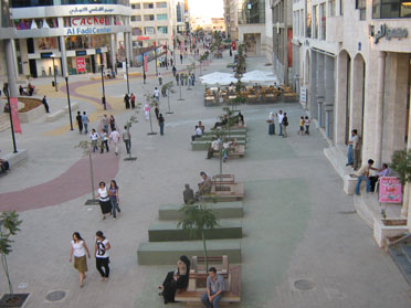 Photo of Wakalat Street